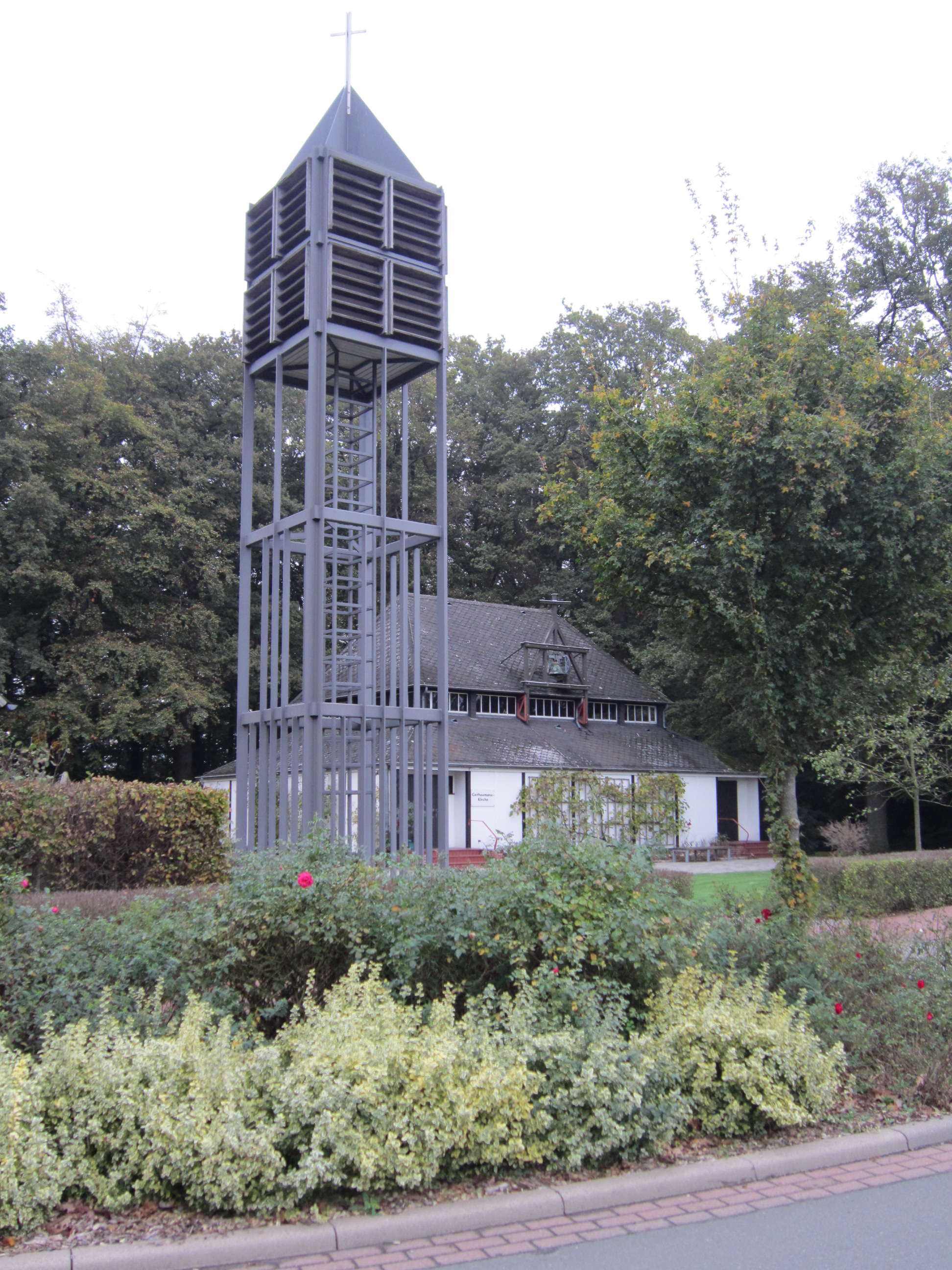 Gethsemane Church in Bakum, Landkreis Vechta (Lower Saxony)